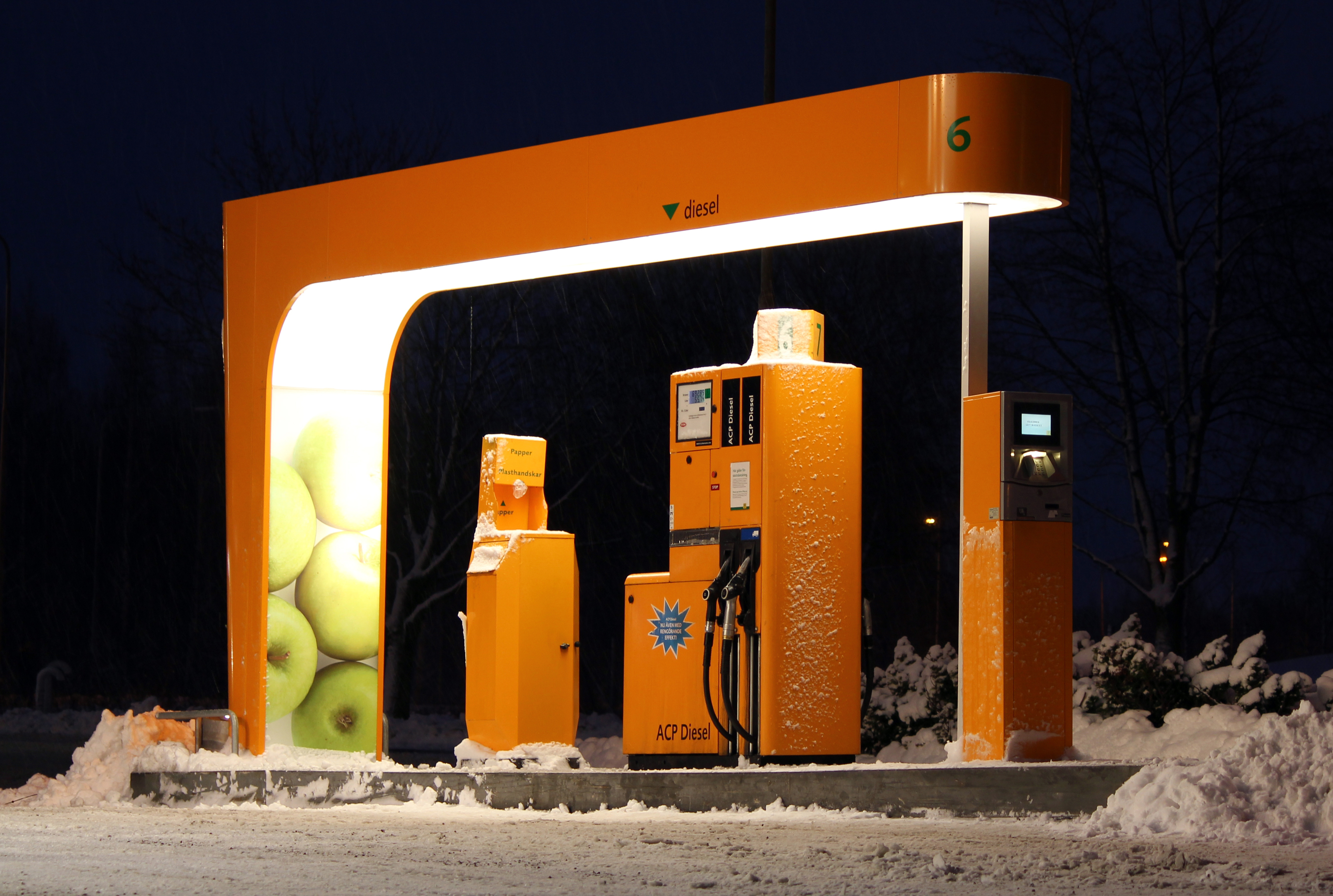 A self-service pump for diesel fuel. To the right, a credit card payment terminal. At a Preem petrol station in Avesta, Dalarna, Sweden.